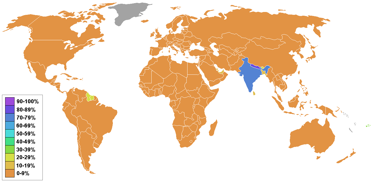 Percentage of Hindus by country.